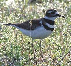 Killdeer (Charadrius vociferus), California